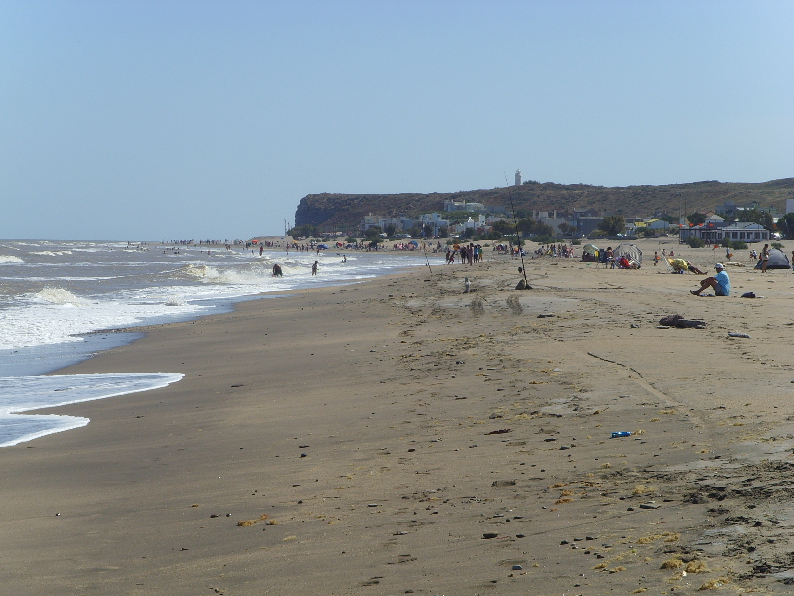 Beach of El Cóndor, Argentina.